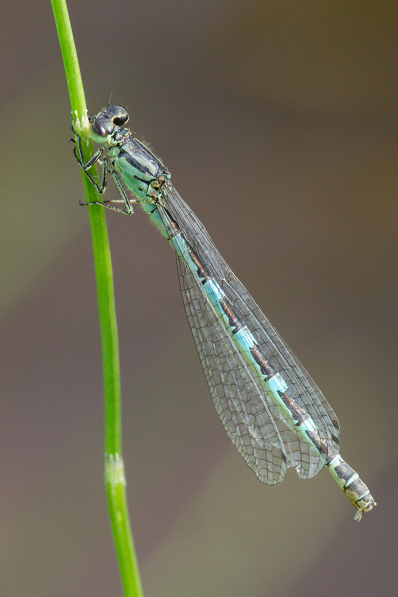 Female Ornate Bluet, Coenagrion ornatum, in northern Germany.